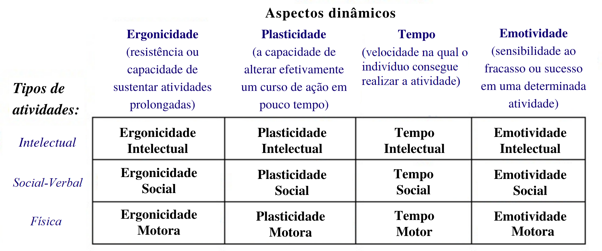 The sole author of this file is Dr. Irina Trofimova, who contributes this file to Wiki. This file illustrates Rusalov's activity-specific model. Dr. Trofimova holds a sole copyrights for this image.